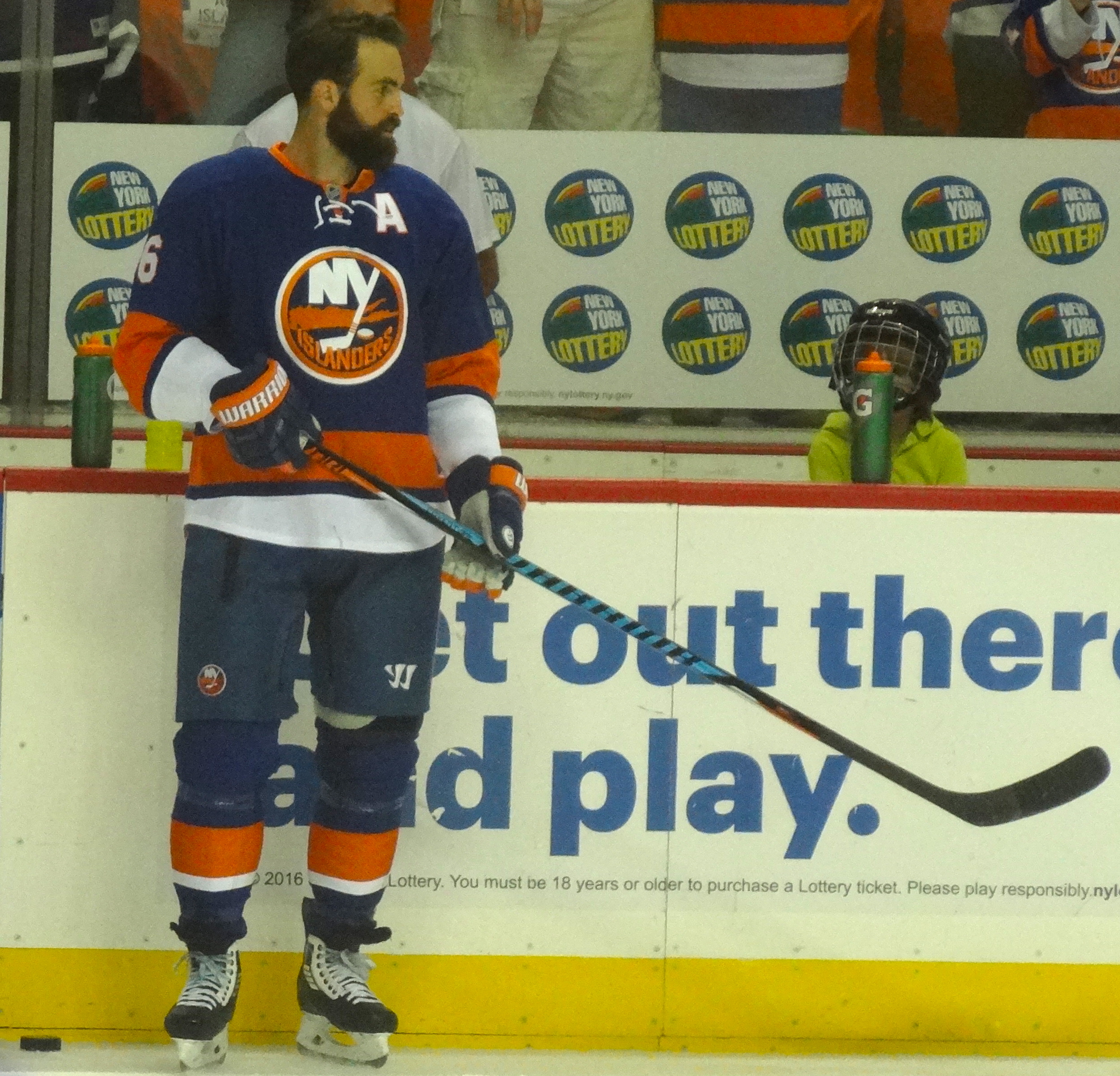 Andrew Ladd warms up prior to a 2016 Islanders game.